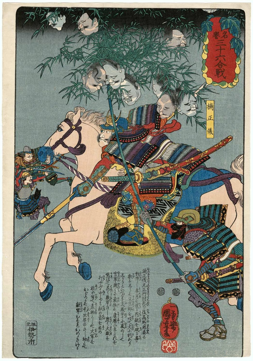 Kusunoki Masanori, from the series Thirty-six Famous Battles (Meiyo Sanjûroku Kassen)